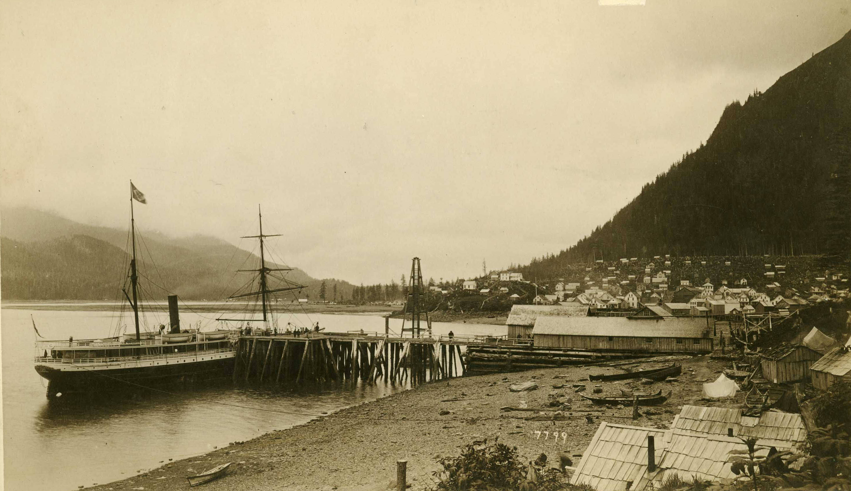 This photograph shows the Steamship Idaho at Carroll's wharf near South Frankin Street in Juneau Alaska in 1887. It was taken by the noted photographer William H. Partridge.